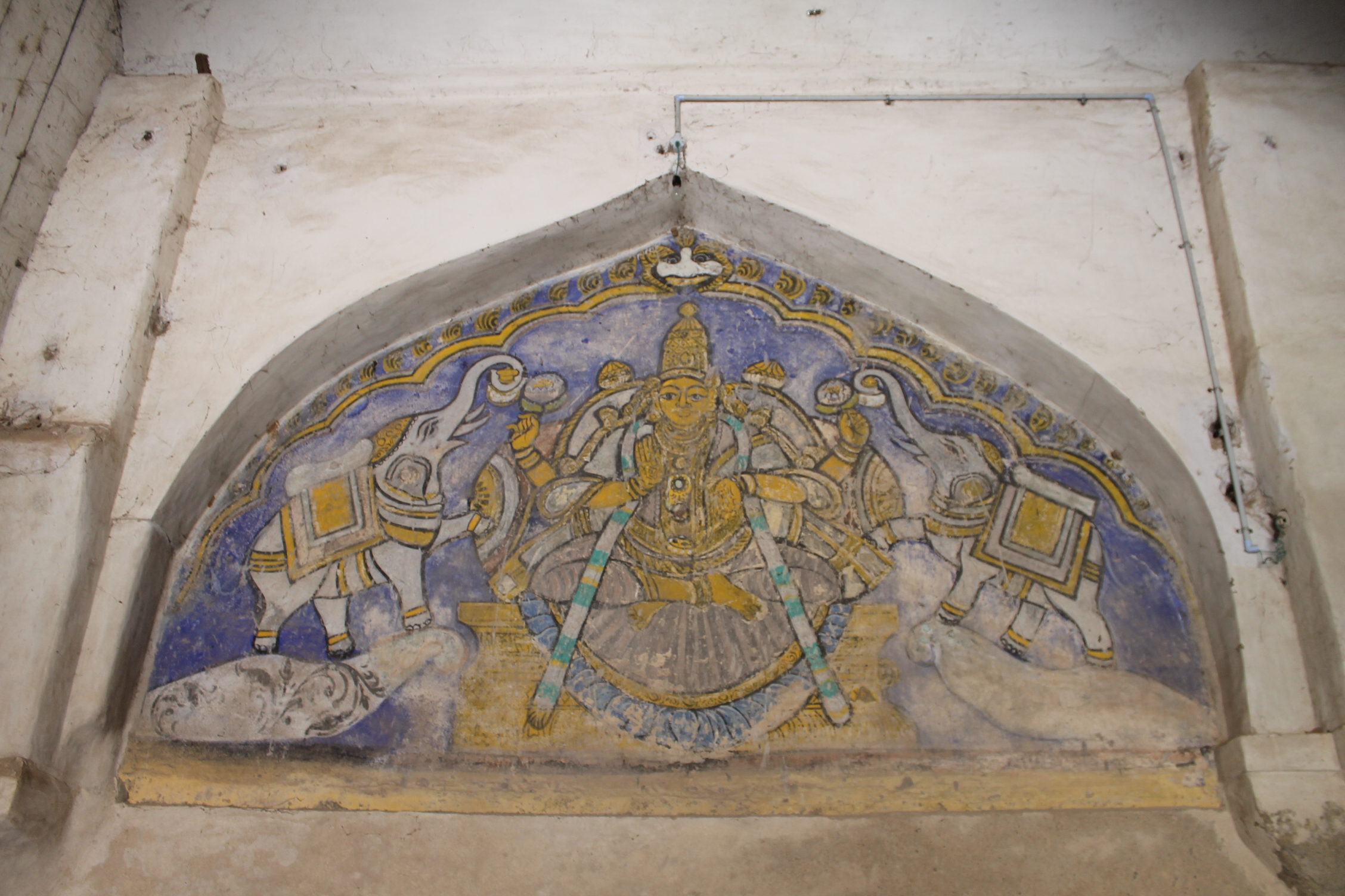 "Amazing Art work in Thanjavur Palace wall". Location: Thanjavur, Tamil Nadu, India.